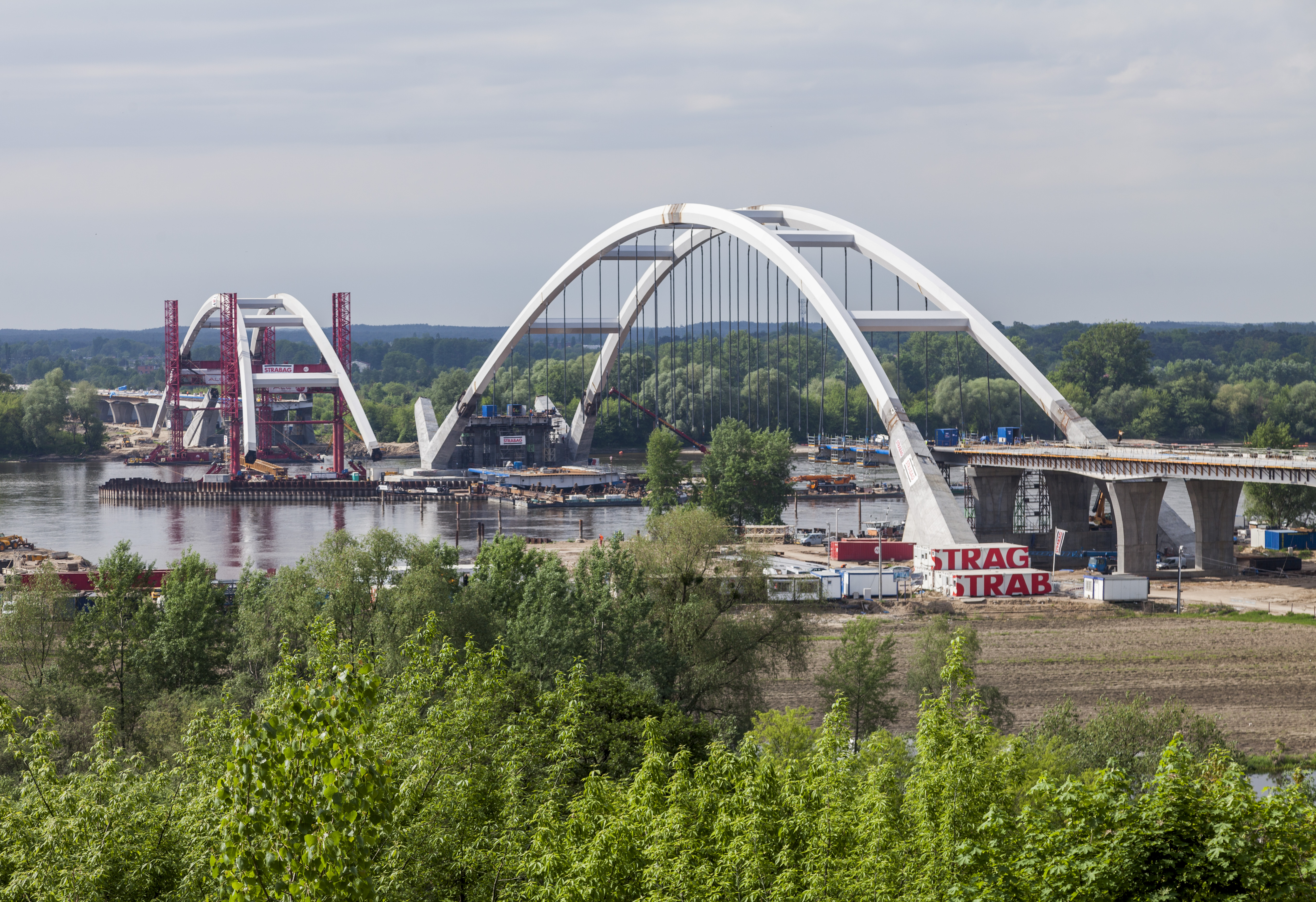 Toruń, Gen. Elżbieta Zawacka bridge under construction.